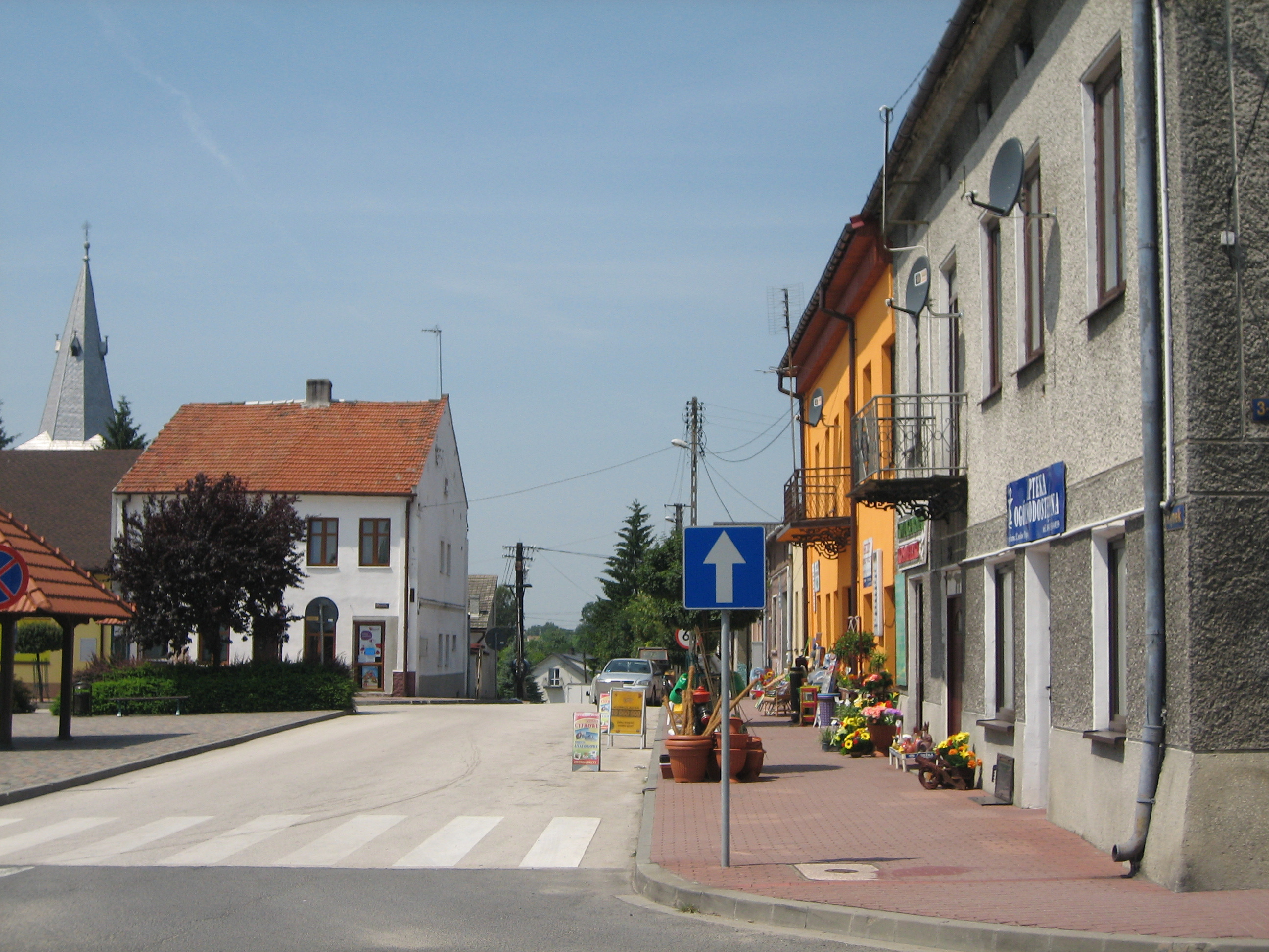 Koszyce (województwo małopolskie) - townhouses